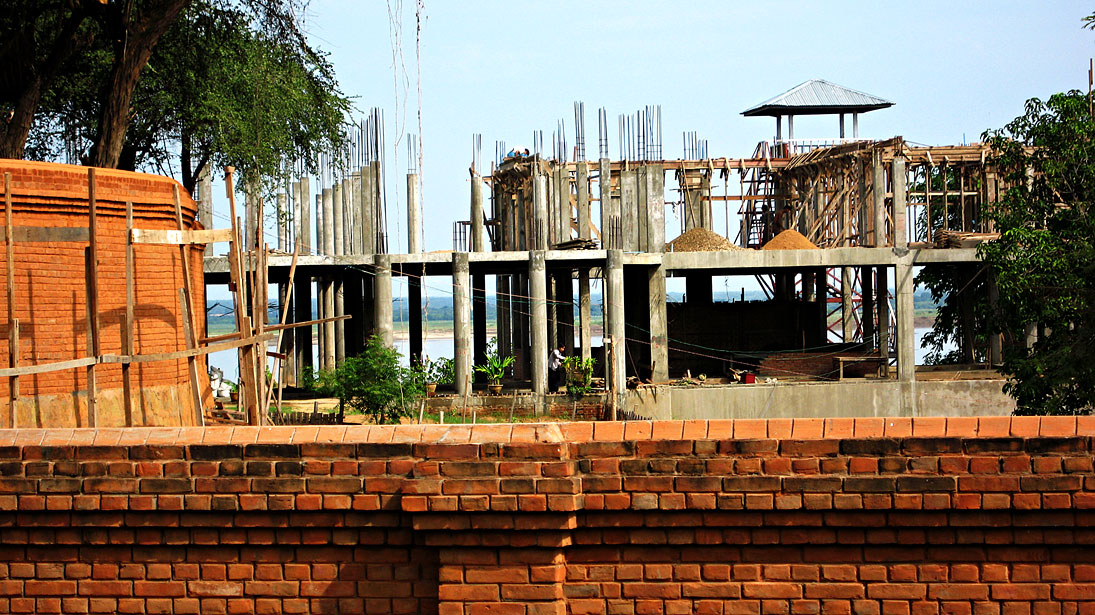 Bagan, Burma: Mansion of Aung San Oo, estranged brother of Aung San Suu Kyi, under construction. Aung San Oo's wife is said to want him to become Prime Minister under the new Burmese Constitution. Summary Bagan, Burma: Mansion of Aung San Oo, estranged brother of Aung San Suu Kyi, under construction. Aung San Oo's wife is said to want him to become Prime Minister under the new Burmese Constitution.